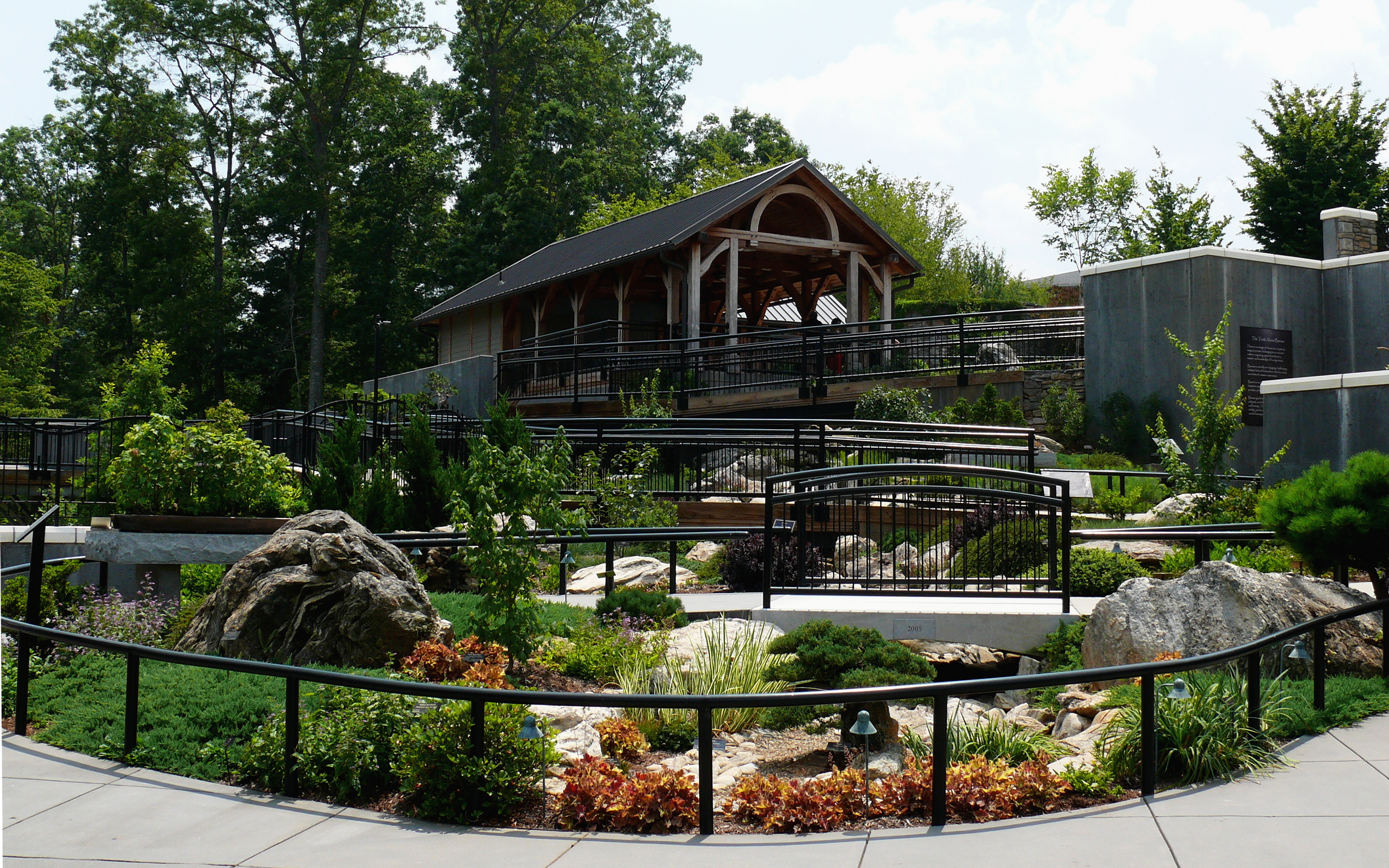 The lower entrance to the Bonsai Garden at the North Carolina Arboretum.Photo taken with a Panasonic Lumix DMC-FZ50 in Buncombe County, NC, USA.